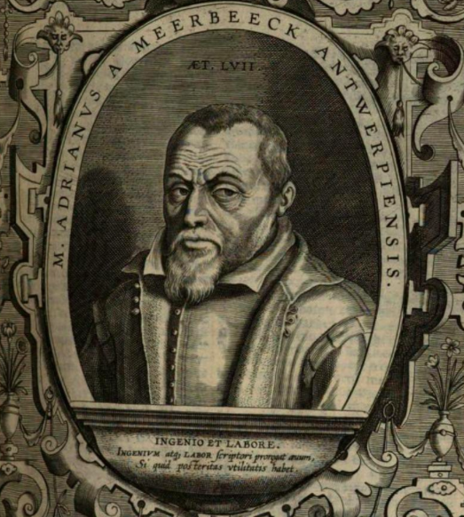 Engraving of the author from Adriaan van Meerbeeck, Chronijcke vande gantsche Werelt (Antwerp, 1620)